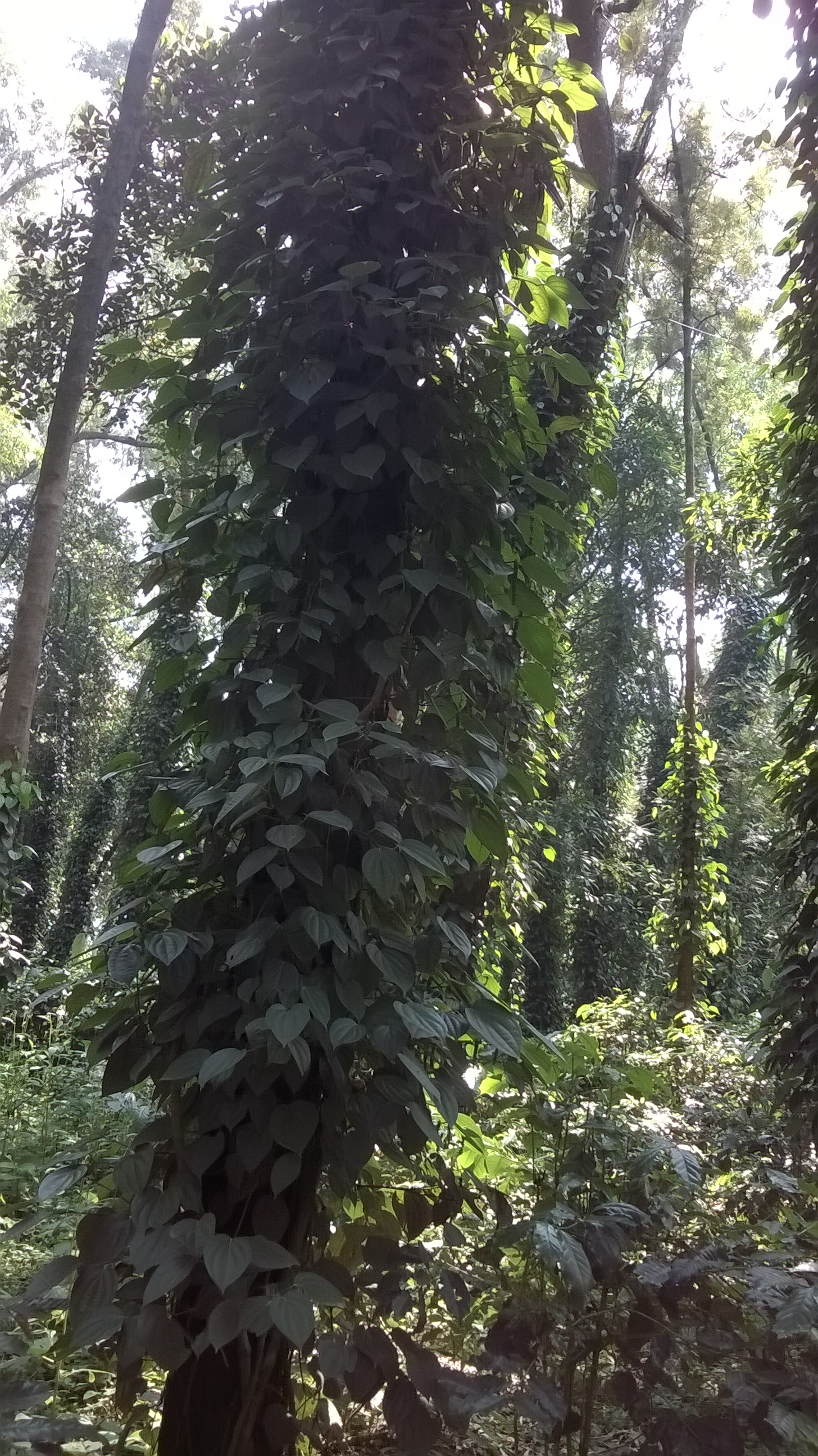 Black pepper cultivation at Daringbari, Kandhamal district, Orissa